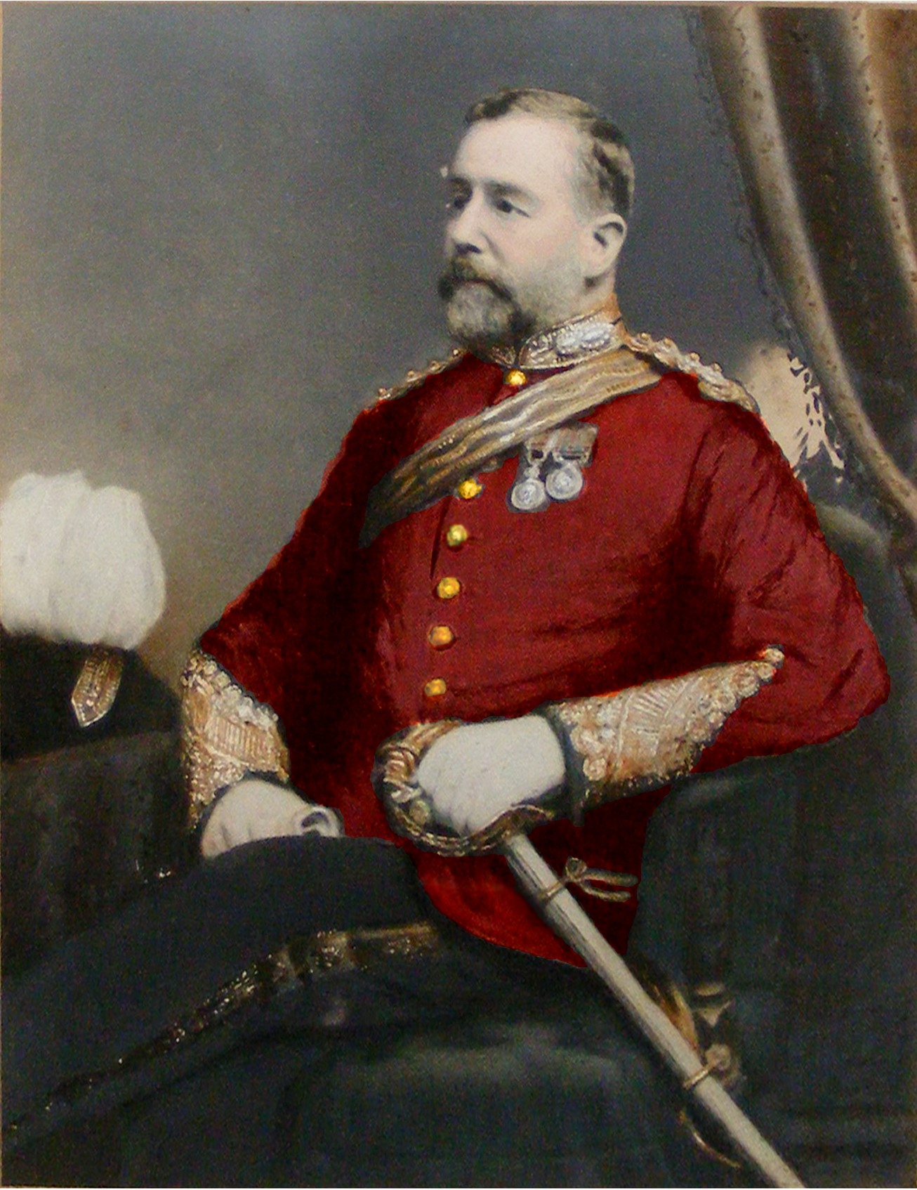 Thomas Tupper Carter-Campbell of Possil. Oil painting, 40x25. Private collection, Dumfriesshire.